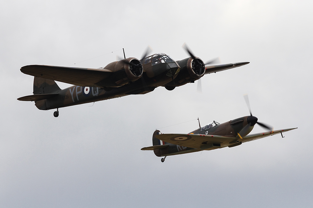 L6739 (G-BPIV) & G-CGUK, X4650 - Duxford Flying Legends, 11/08/2015